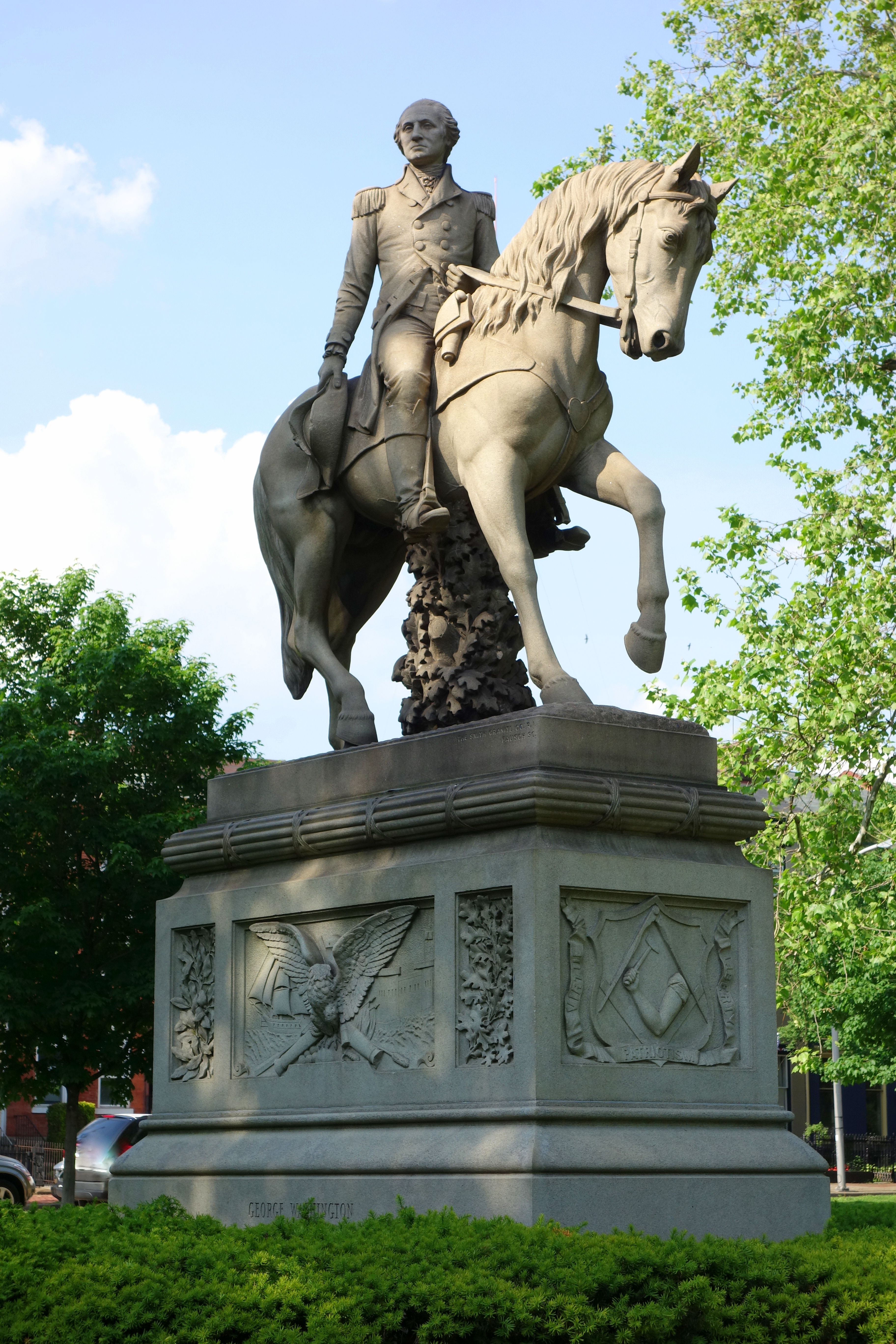 George Washington Memorial by Edward Ludwig Albert Pausch (1856-1931) - Allegheny Commons Park, Pittsburgh, Pennsylvania, USA. Dedicated on Feb. 23, 1891. The head of this piece copied after Houdon's George Washington in the Virginia State House in Richmond, Virginia. This artwork is in the public domain because the artist died more than 70 years ago. Smithsonian SIRIS information: SIRIS record describes the memorial thus: "Equestrian portrait of George Washington. On the front panel of the base is a large eagle, flanked on one side by a ship in full sail and on the other by a fort. The side panels are adorned with symbolic laurel and oak branches, and each end panel contains the Masonic symbol of a shield on which a square and compass frame the arm of a workman wielding a hammer. The upper section of the plinth is in the design of a Roman fasces, a symbol of official authority."